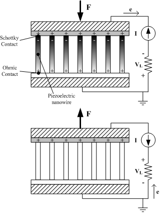 Working priciple of nanogenerator where the force is exerted in parallel to the growing direction of nanowire.